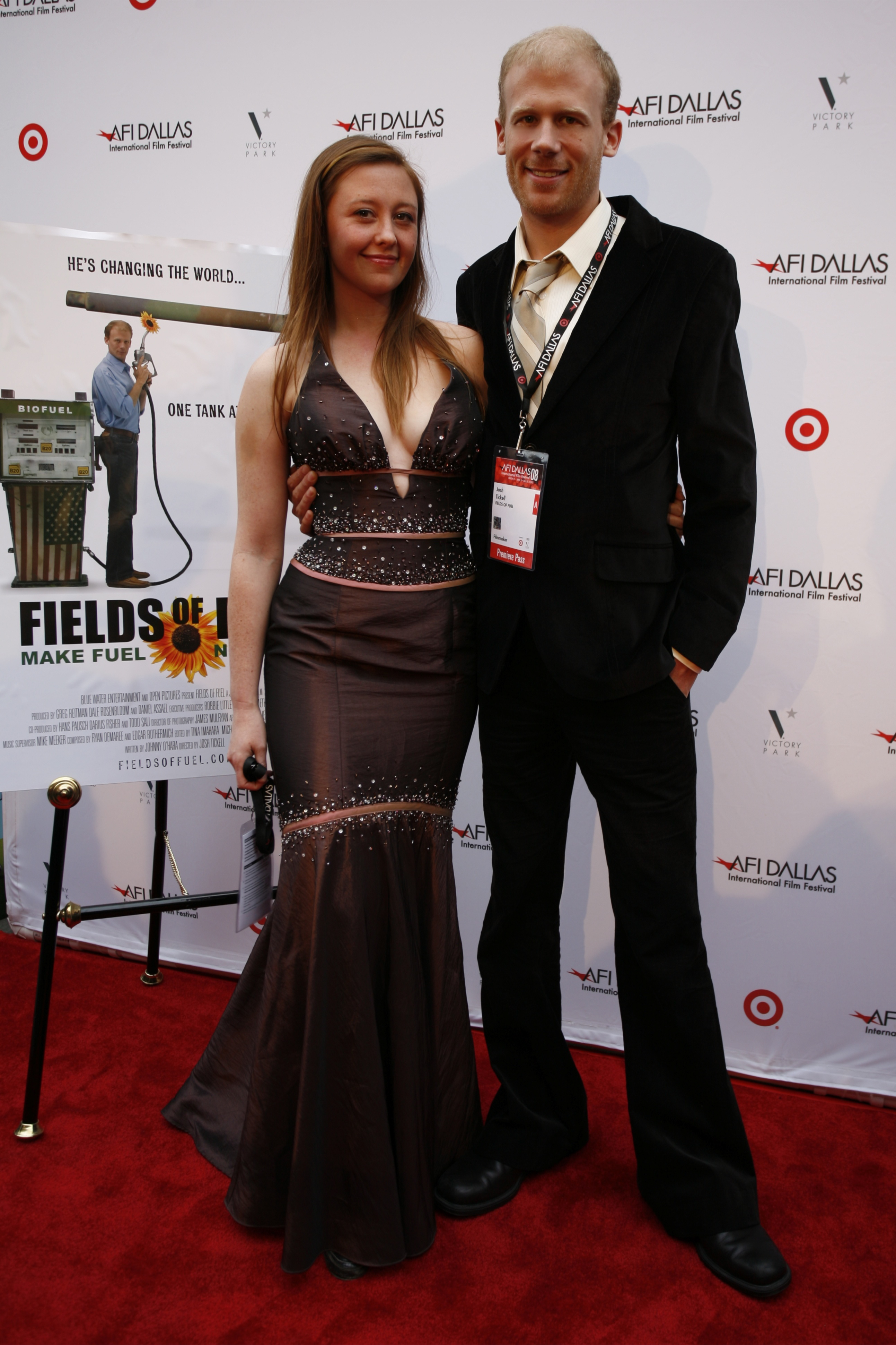 Josh and Rebecca Tickell on the red carpet at the AFI Dallas Film Festival